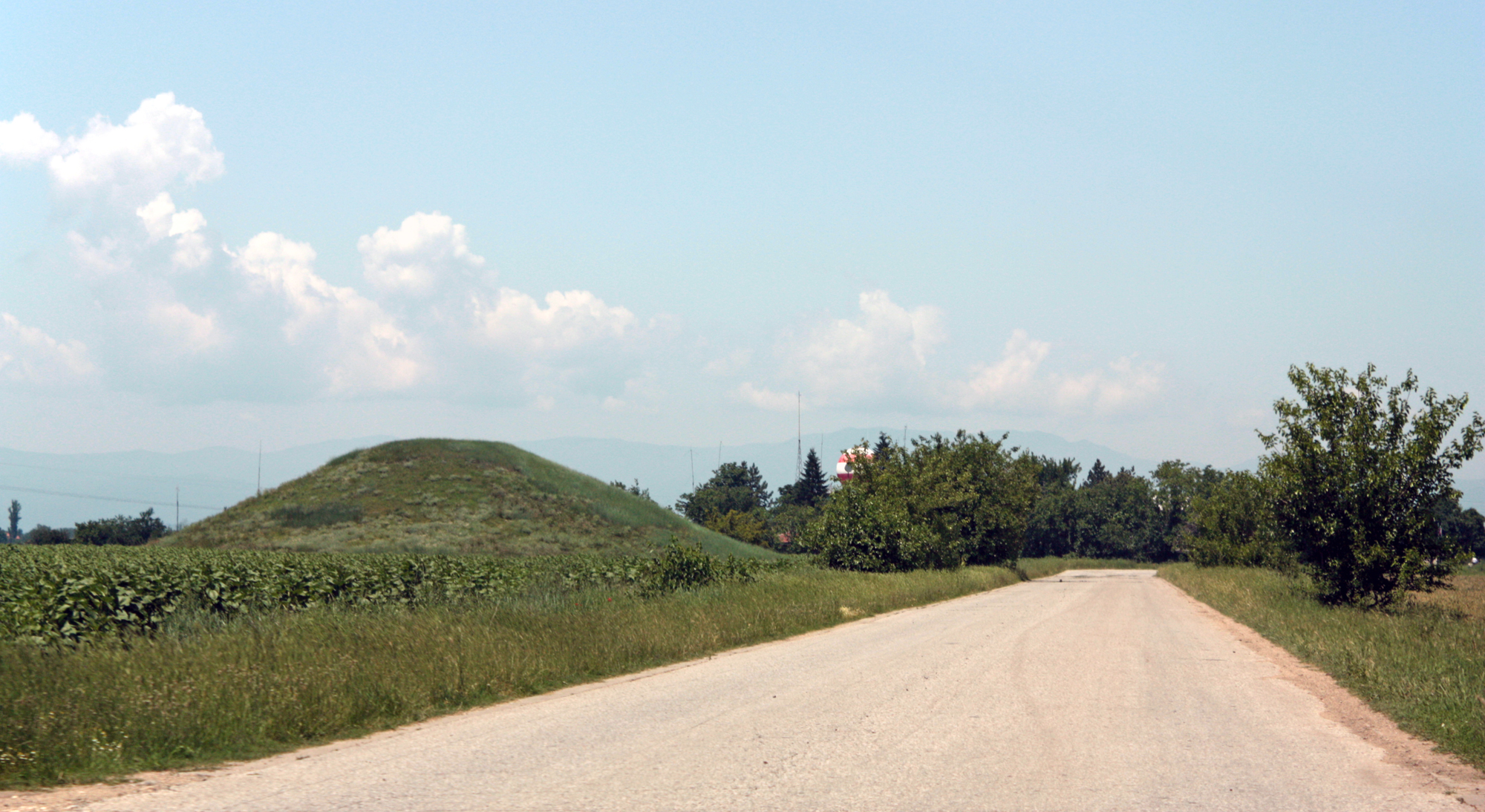 A tracian mound among Golyam Chardak and Malak Chardak, Bulgaria